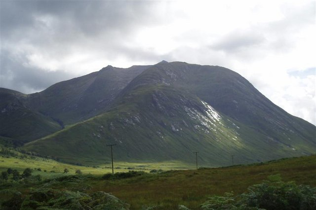 Beinn Mhic Chasgaig Not far from the beginning of the narrow road that takes you down magical Glen Etive, this smaller mountain faces one of the most famous sights in Scotland... Buachaille Etive Mor is over the right shoulder of the photographer.